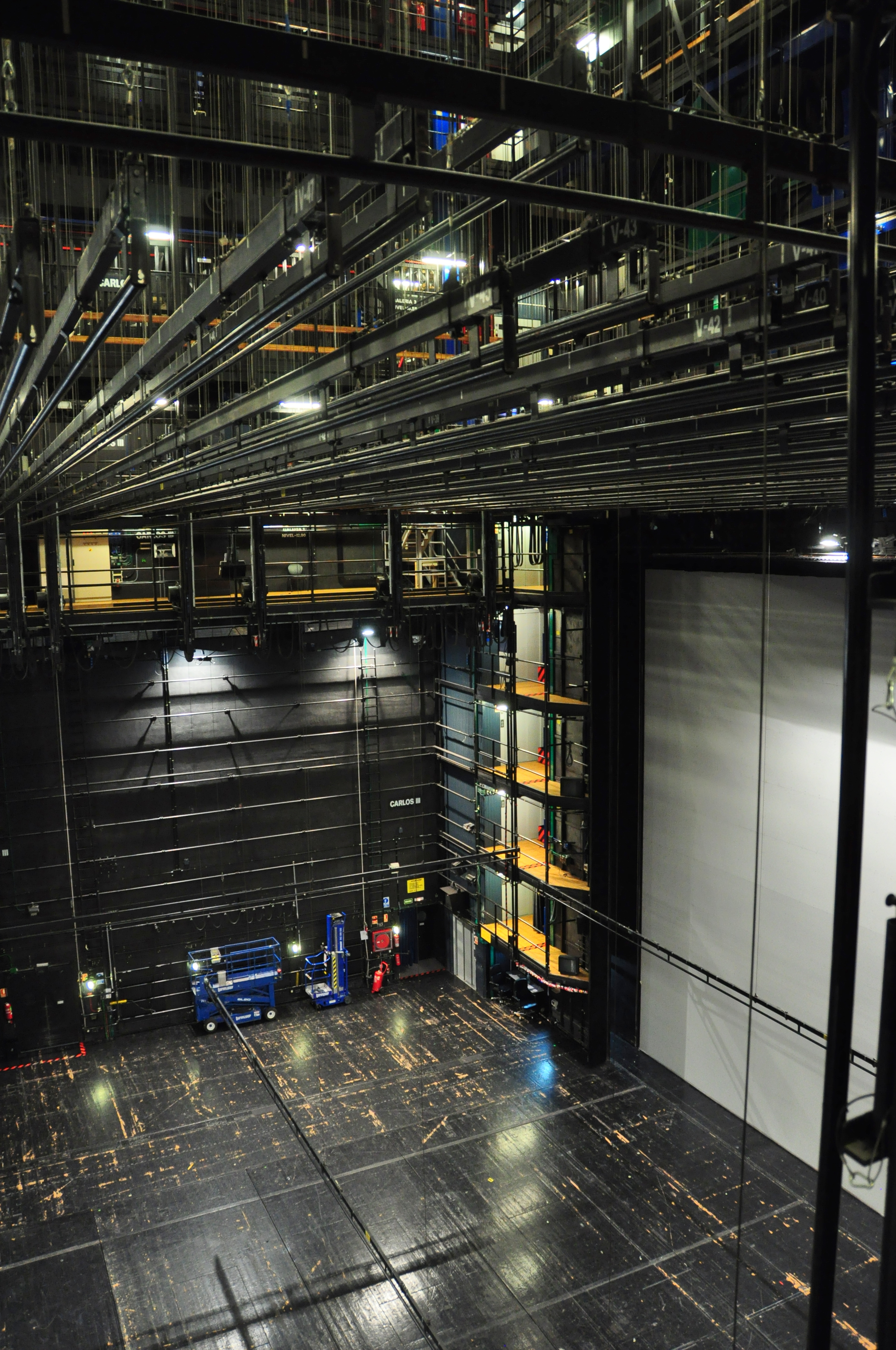 View of the scene and the fly system of the Teatro Real (Madrid)